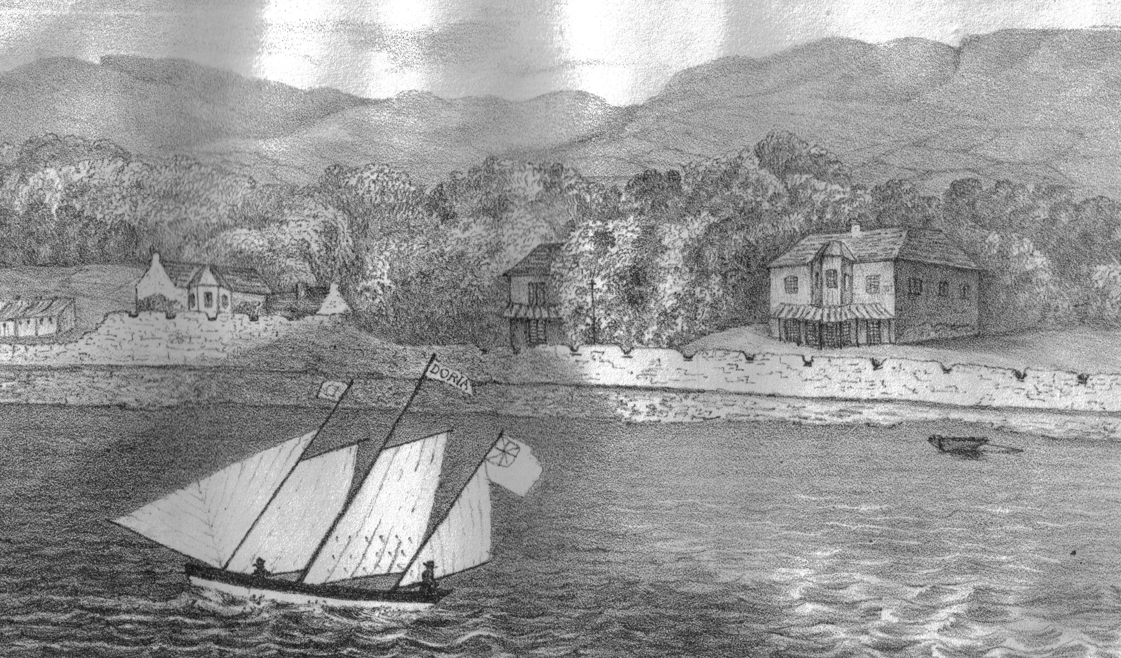 Fairlie and its Bay, Firth of Clyde, North Ayrshire, Scotland.